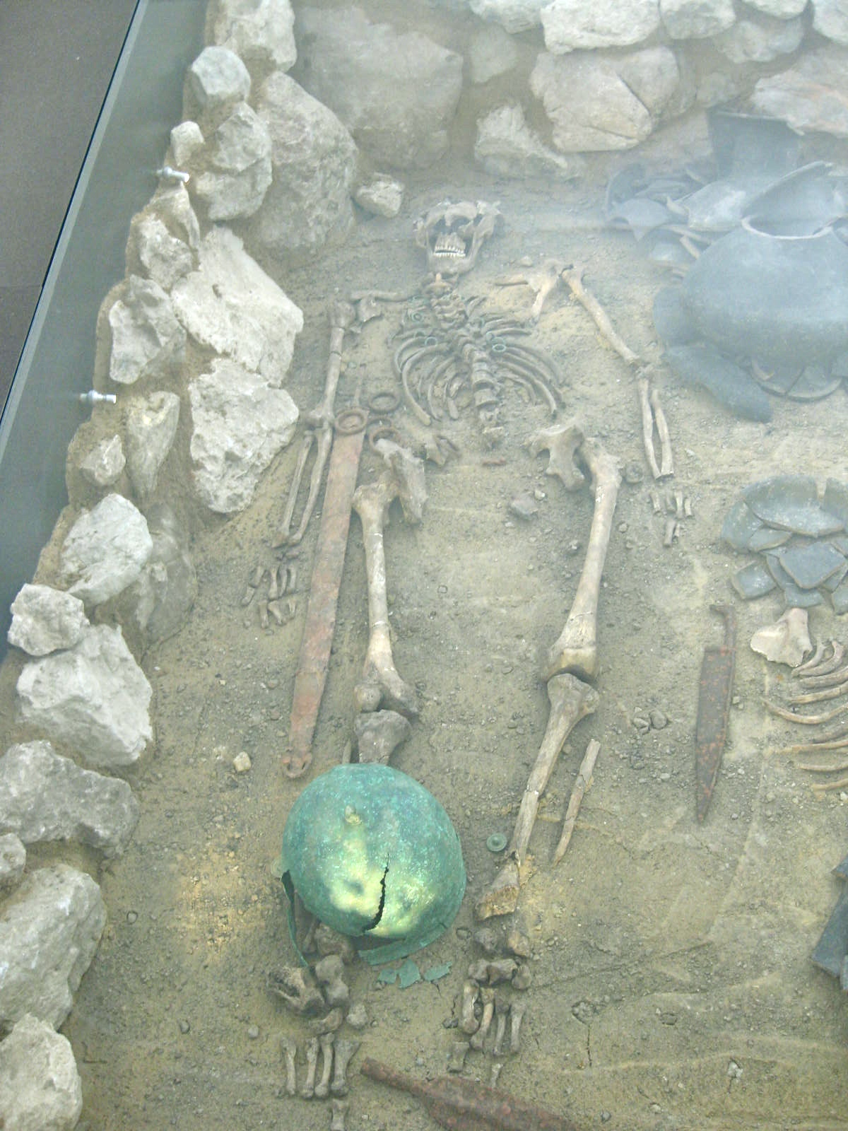 Keltenmuseum, Hallein. Finds from the Slt Mines at Dürrnberg Double burial